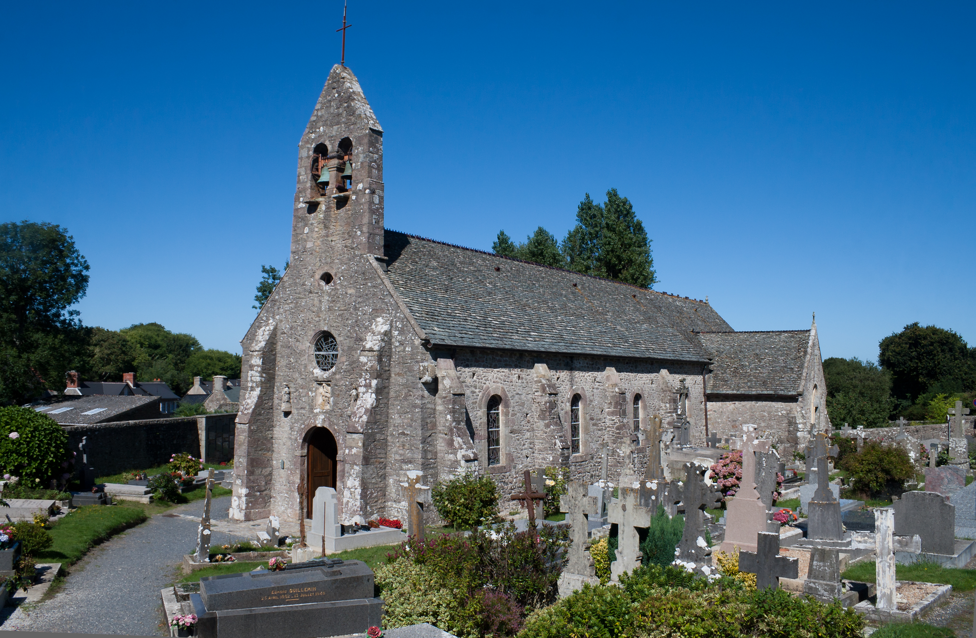 South-west view of St. Martin's Church.